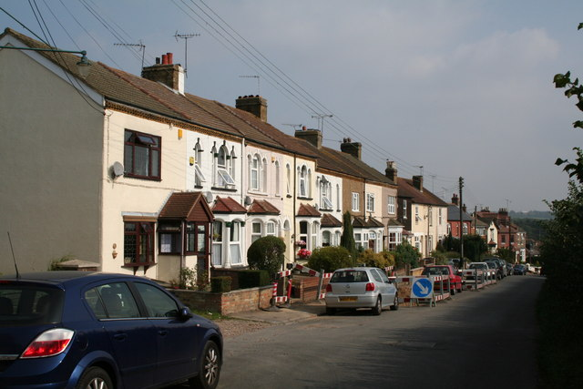 Hawley village, Kent. Hawley is a rather unusual village. It straggles westwards from the A225 by Shirehall Road, which is probably too narrow for public transport. It appears to lack both a church and a public house, although there is a post office. There are, however, some pleasant houses, as seen here in Shirehall Road